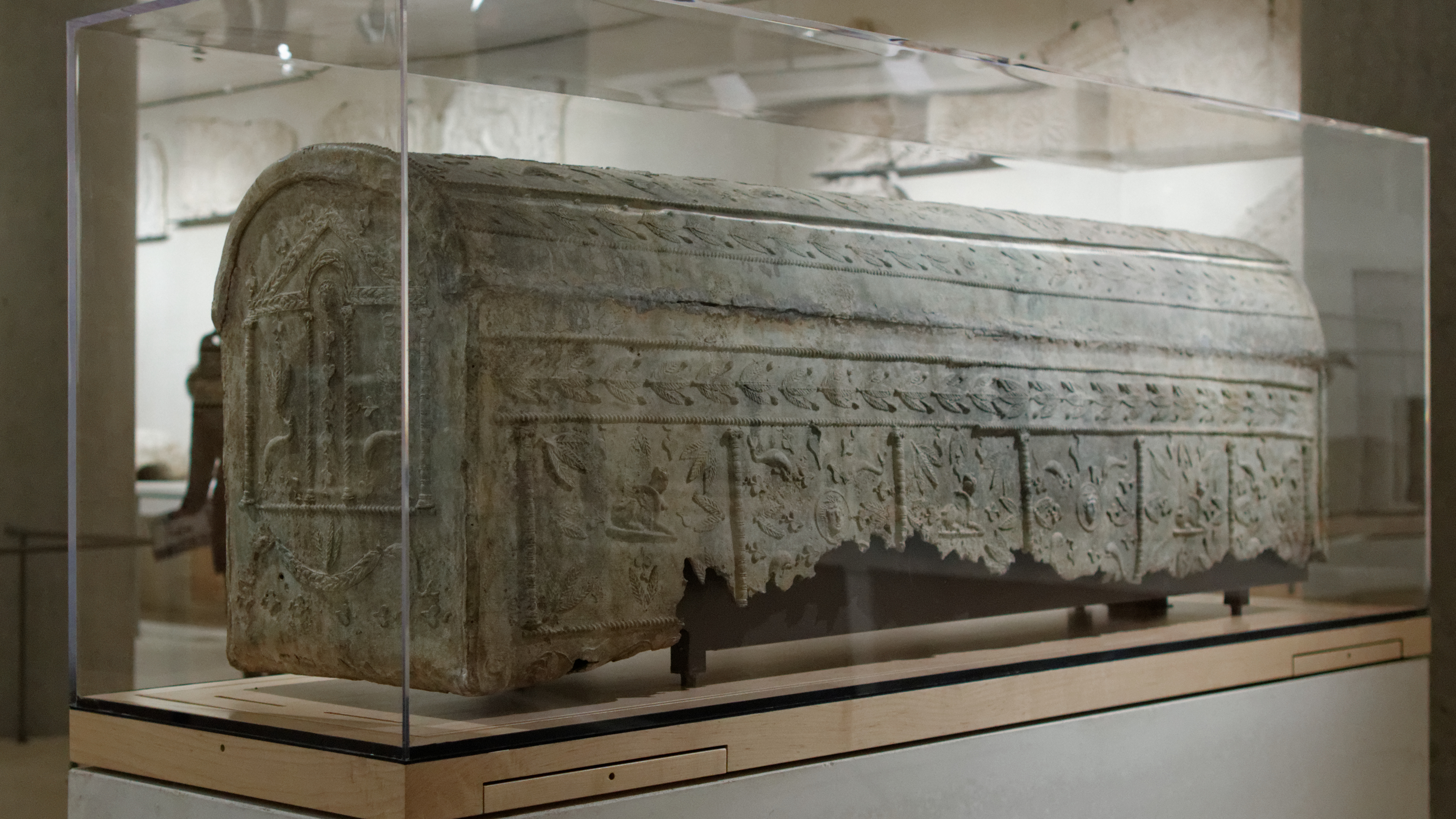 The decoration of this sarcophagus from the Tyre workshop is based on architectural design: each end features a temple façade with a "Syrian" arch, while the sides are adorned with twisted Corinthian columns. The composition is completed with a twisted cord decoration and friezes of laurel leaves or foliate scrolls framing sphinxes, walking lions, dolphins, Gorgon masks and kantharoi (drinking cups). The ancient welds have been preserved.